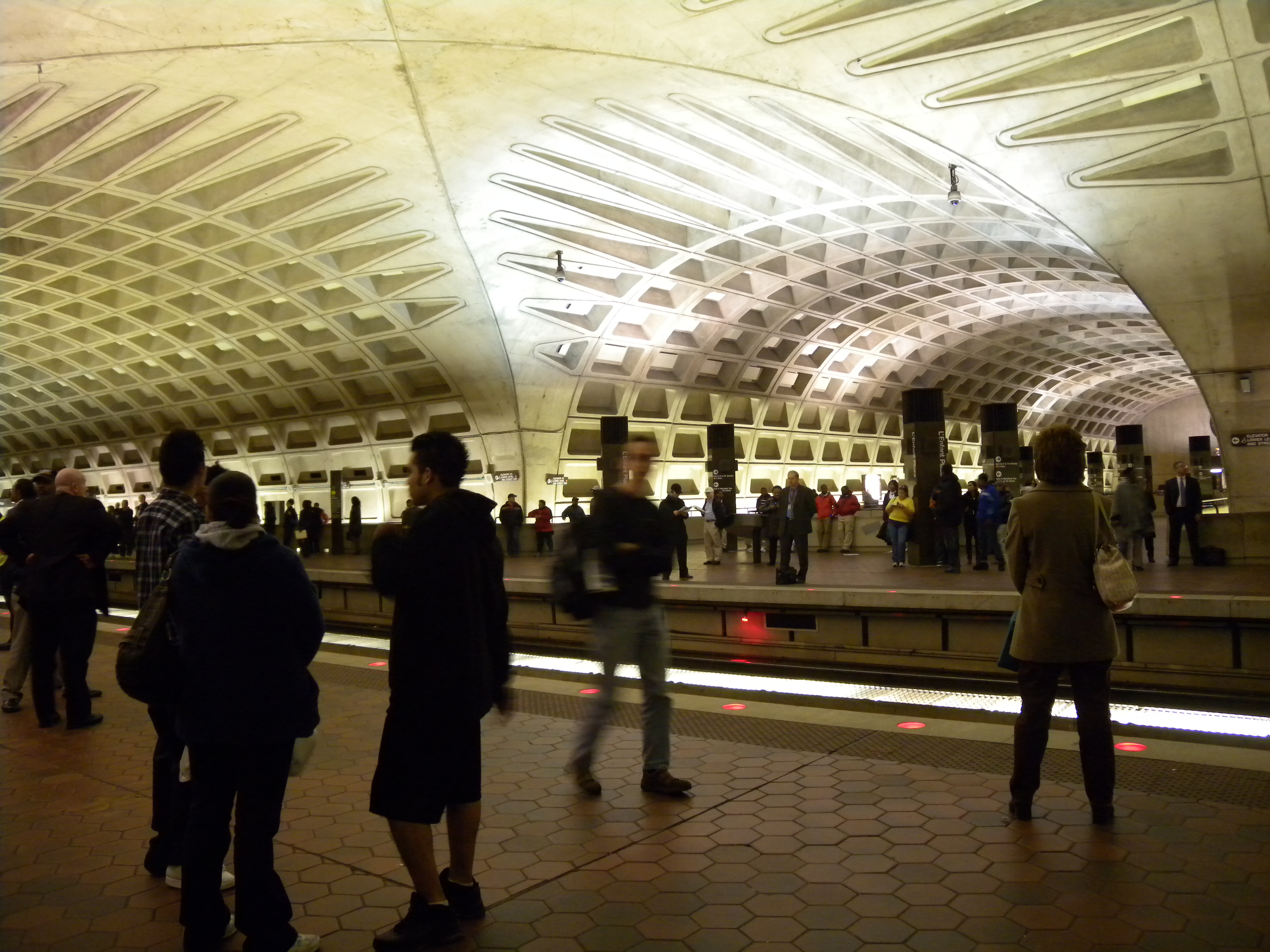 L'Enfant Metro station, Washington D.C., USA. Upper platform (green and yellow lines).